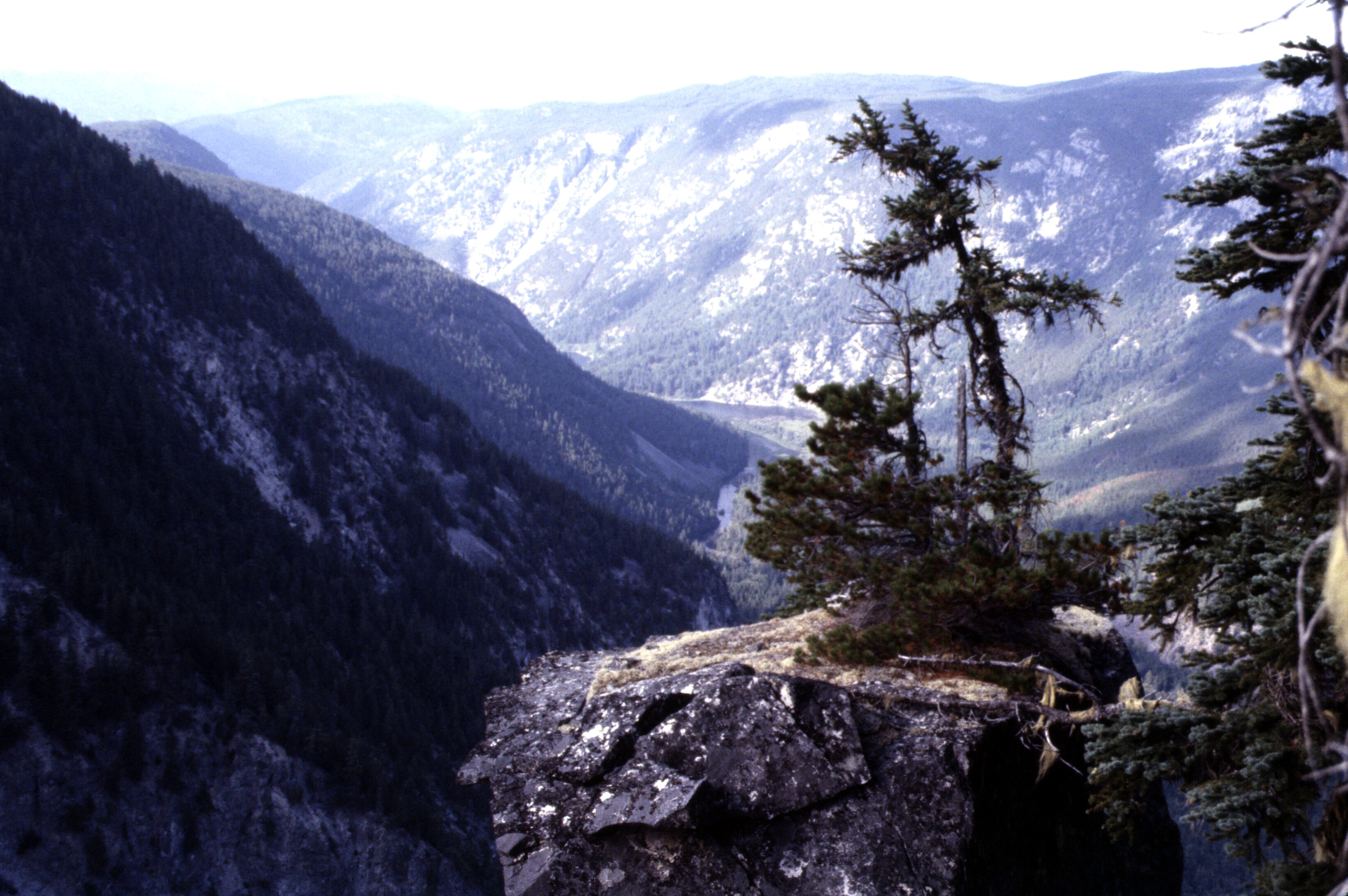 Looking downstream from Hunlen Falls along Atnarko Valley towards Stillwater Lake, August 1981.